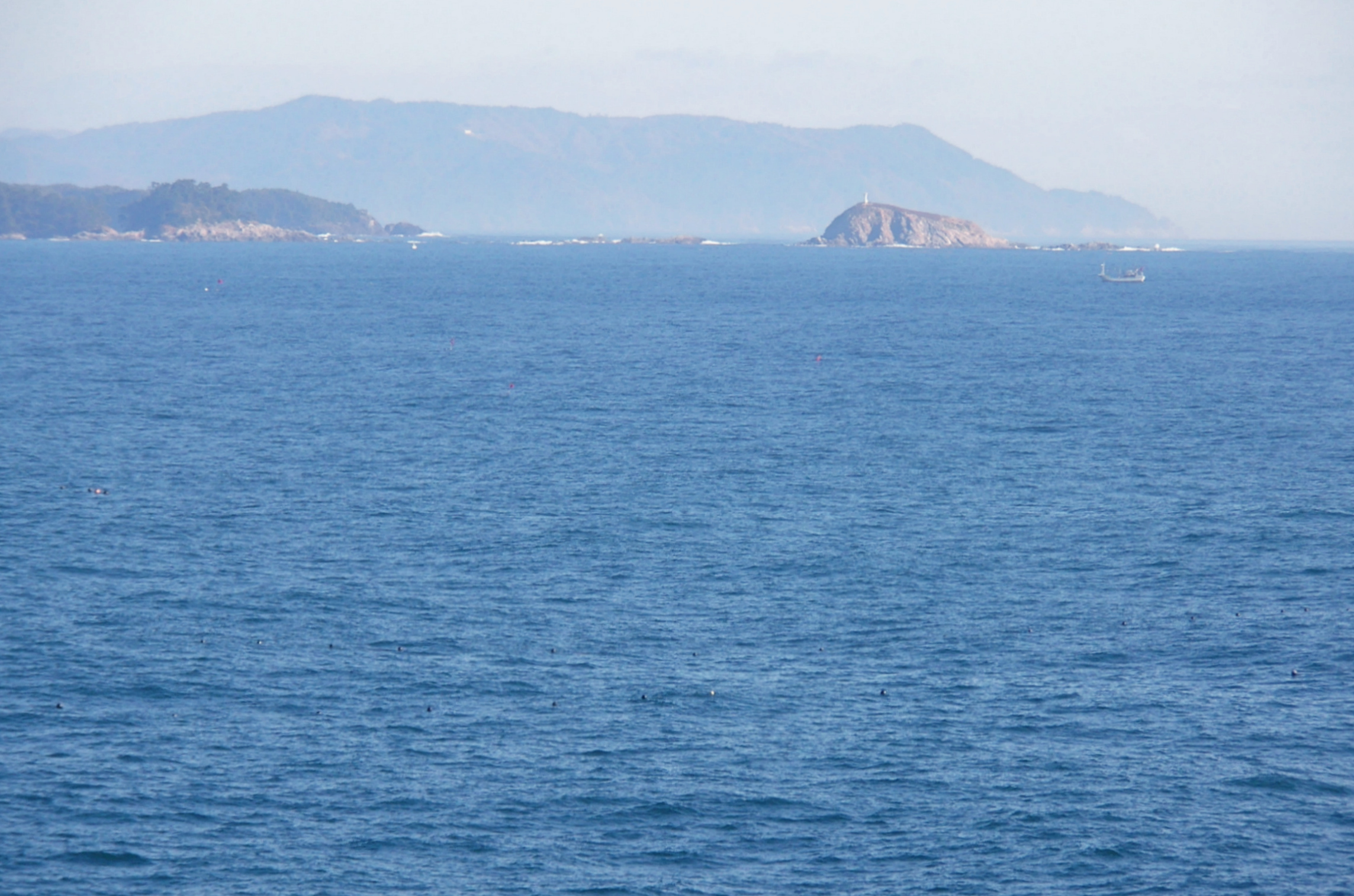 Ryorizaki (Cape Ryori) in Ofunato City, Iwate Prefecture, Japan